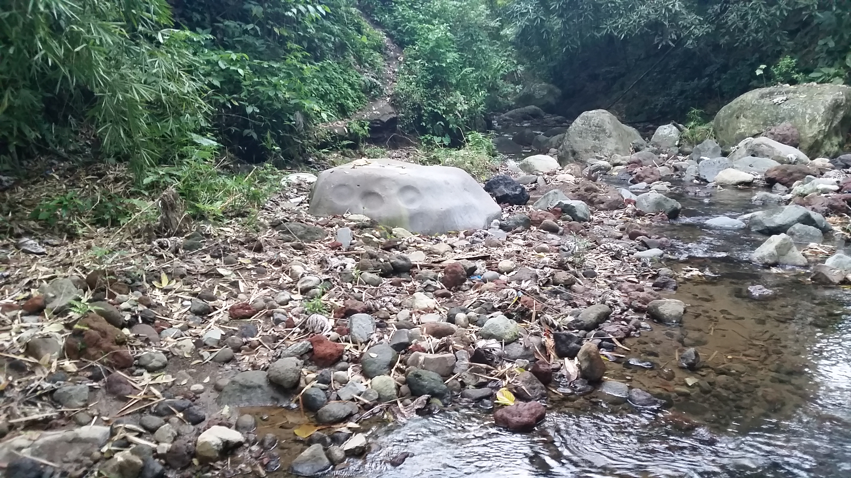 "Workstone" with cupules at the Mt. Rich Petroglyphs in Grenada, W.I.